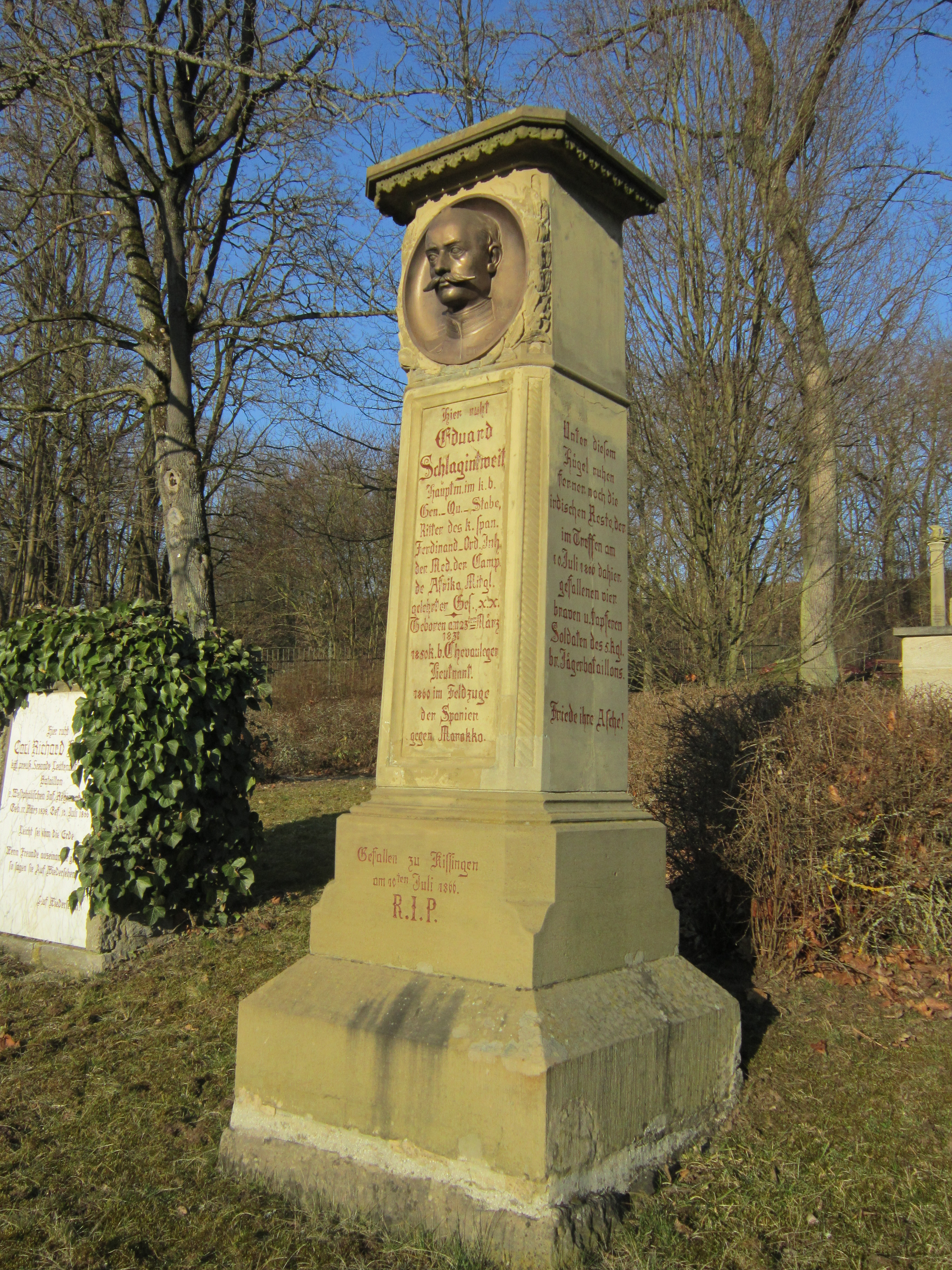 Grave of German officer Eduard Schlagintweit in Hausen, a quarter of the German spa town of Bad Kissingen (Lower Franconia, Bavaria).